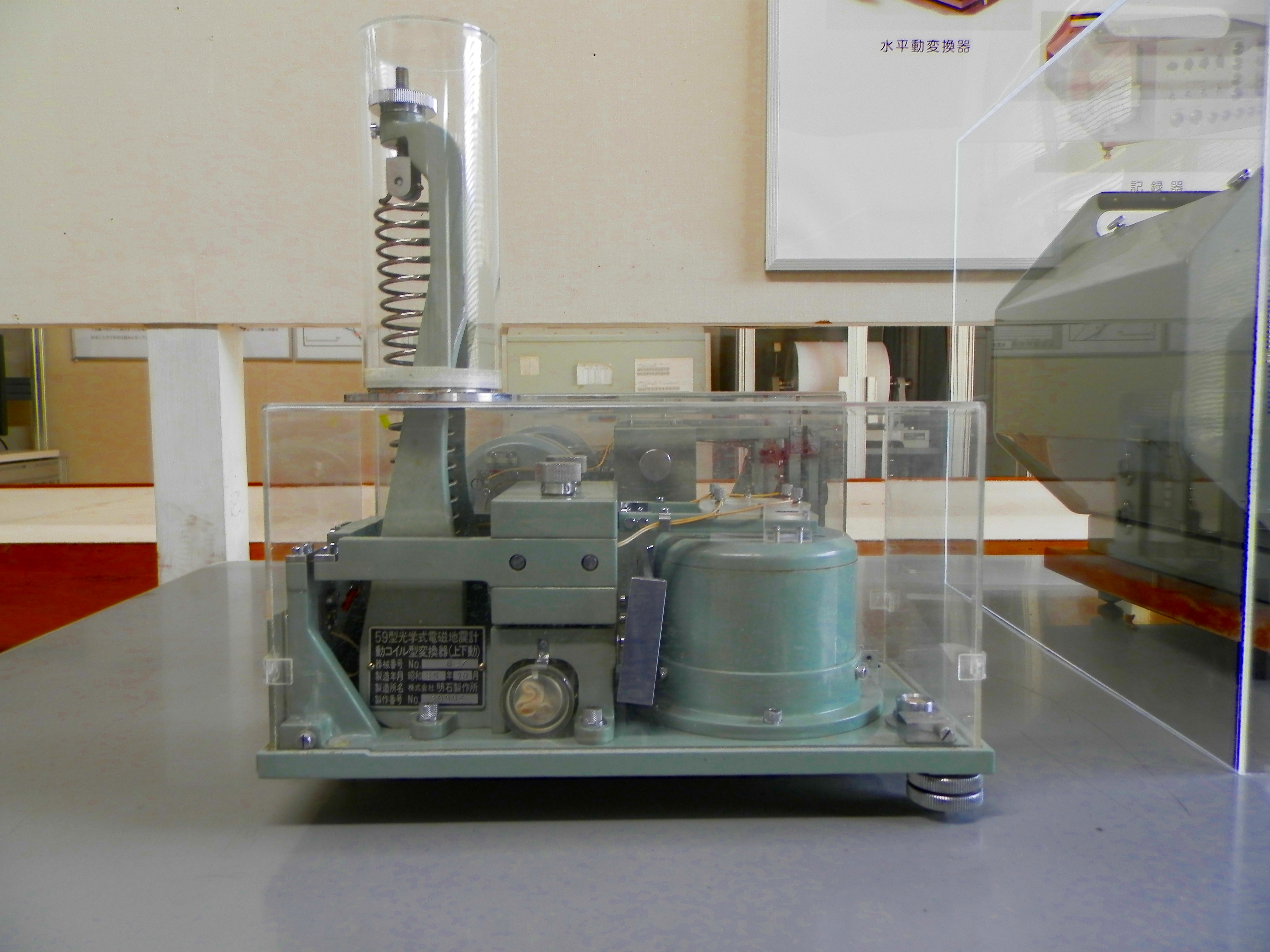 Japan Meteorological Agency 59 Formula optical electromagnetic seismometer